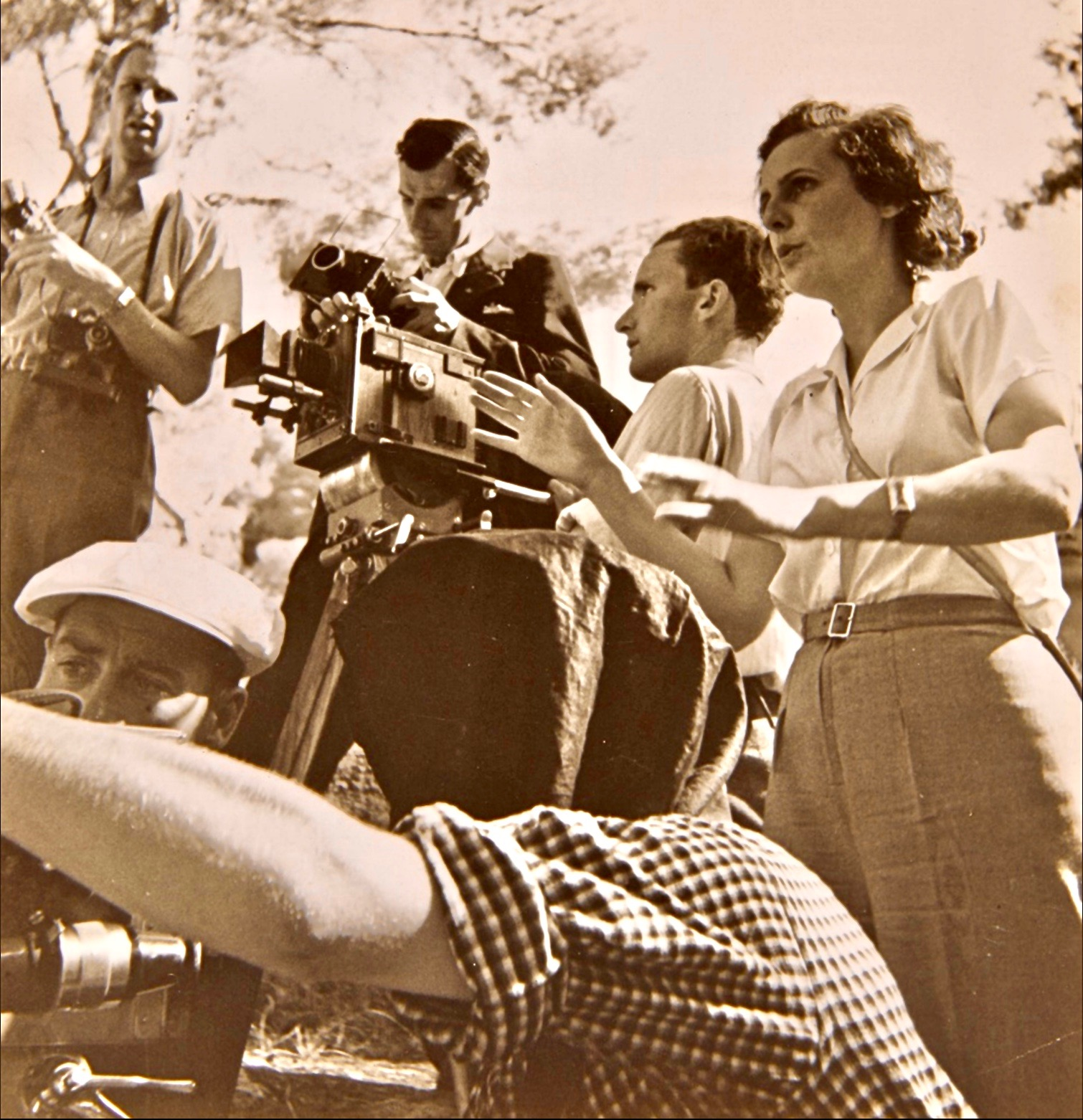 A team of the Berlin-based Olympia-Film G.m.b.H. during a shoot for the Olympia movie picture in summer 1936. On the right director Leni Riefenstahl (1902–2003), left from her cameraman Walter Frentz (1907–2004). Contemporary gelatin silver print, marked on its backside with a stamp of Olympia-Film G.m.b.H., Berlin S.O. 36